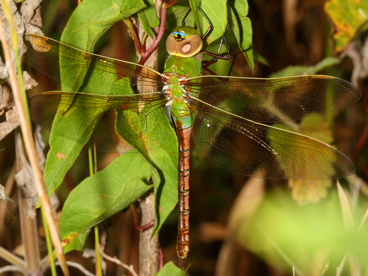 Live adult female green darner dragonfly, Anax junius. Family Aeshnidae. Photographed in the wild at Blackwell Forest Preserve, DuPage County, Illinois.